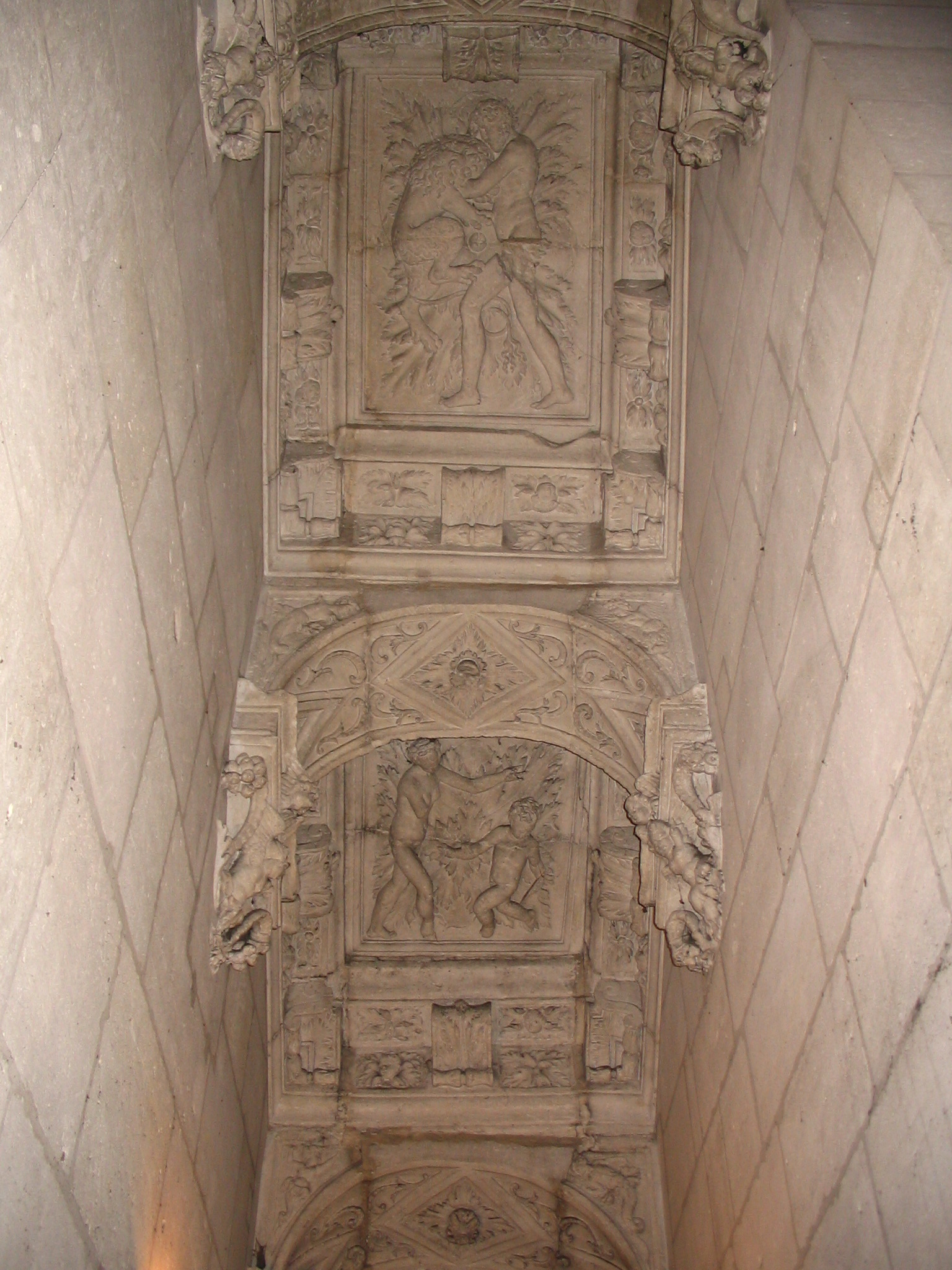 One of the very decorated staircases of the Francis I castle of Villers-Cotterêts, Aisne, France.